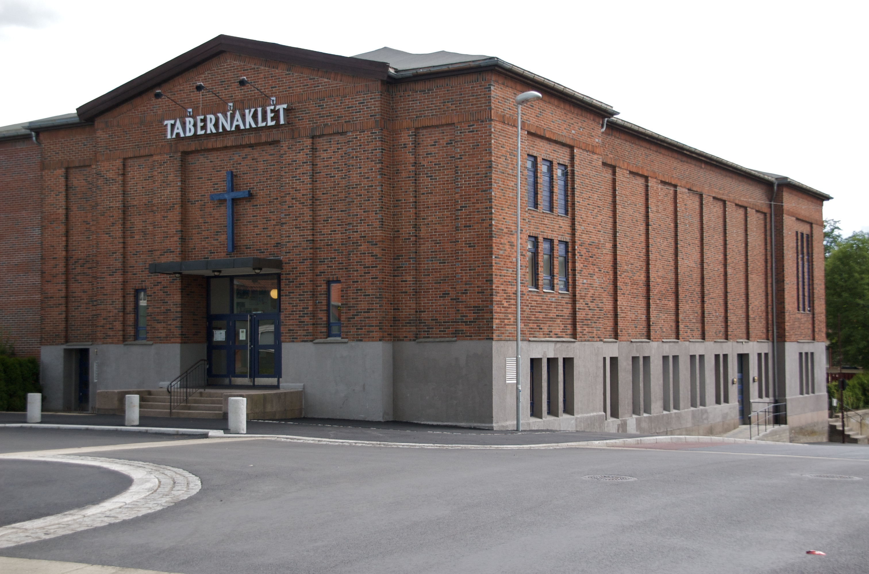 Building in Skien, Norway.